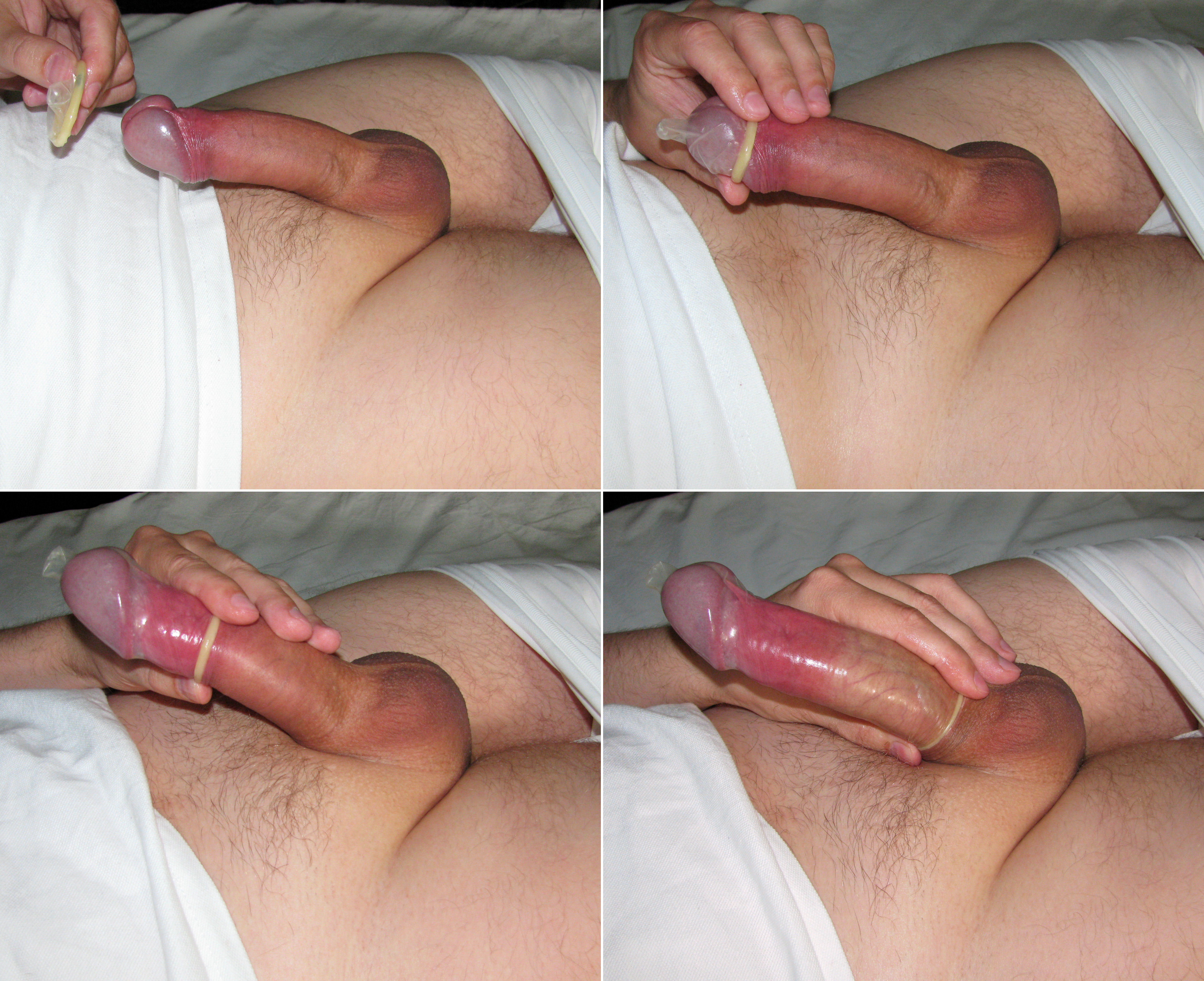 A male (lying on bed) is putting a condom on his erect penis. If the penis is uncircumcised, like this male's penis, the foreskin must be behind the glans penis before the condom is put on the top of the penis. Then the condom is rolled all the way down along the penis shaft. The condom seen in these images is normal-sized, ultra thin and transparent. Male's penis is rather typical in size and the condom fits tightly on this penis.